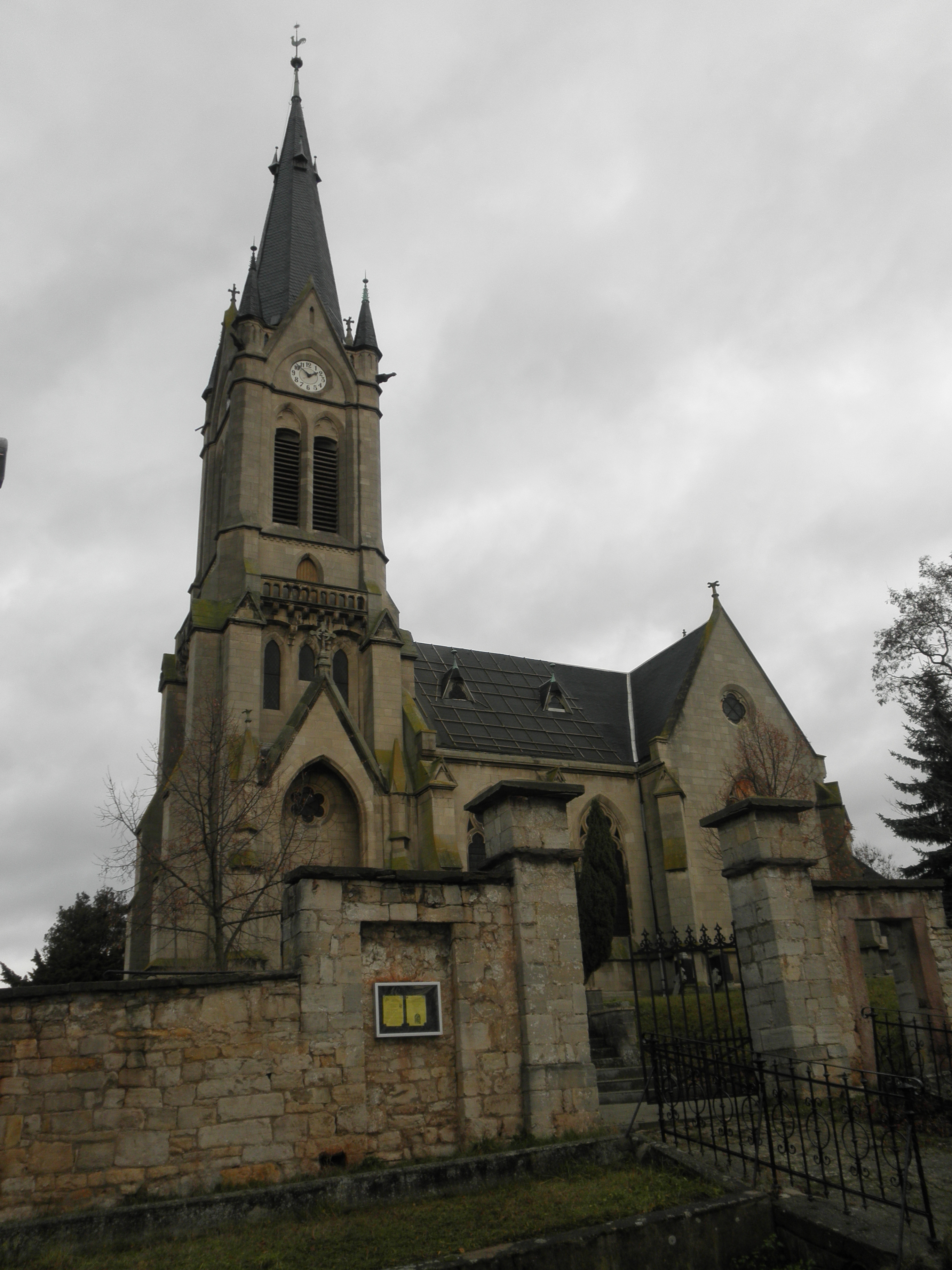 Church in Altenbeichlingen (Beichlingen) in Thuringia